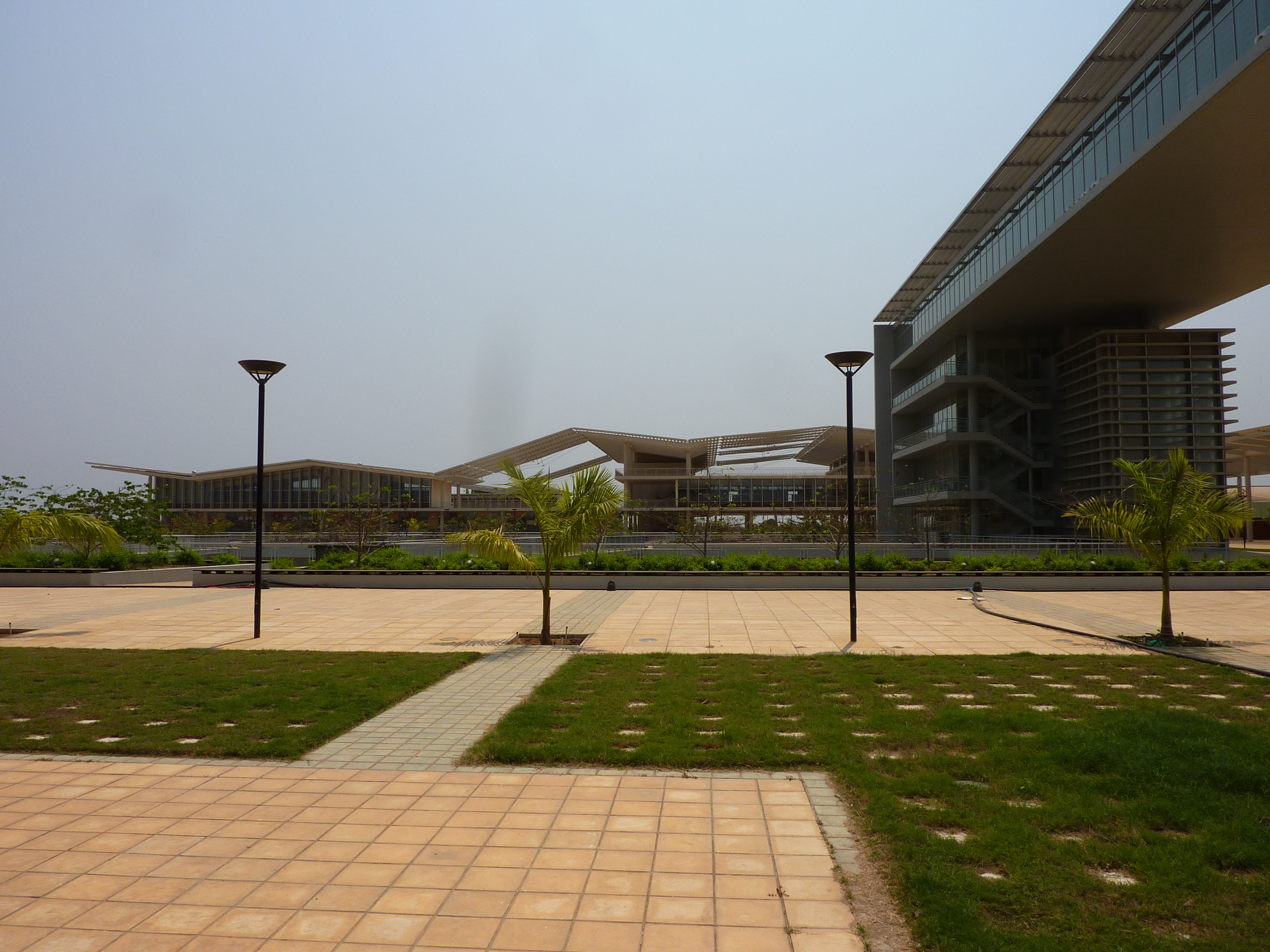 New campus